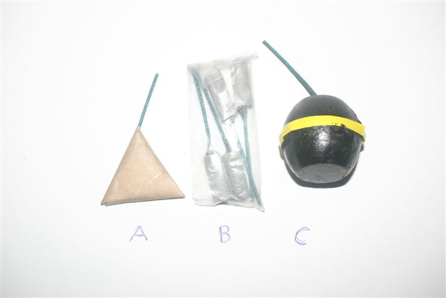 What kind of fearwork is verbidden.